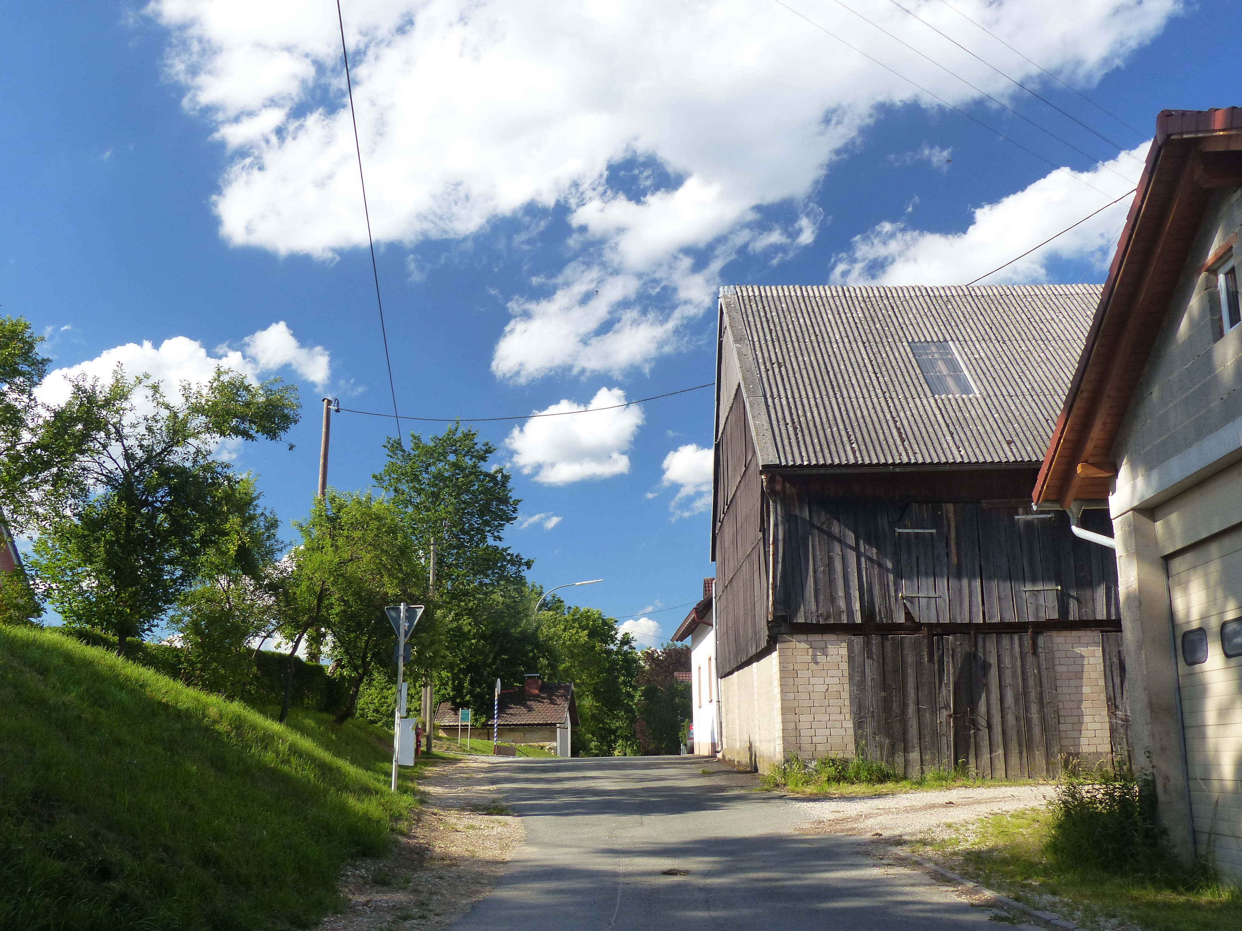 The hamlet Hundshof, a district of the municipality of Ahorntal.